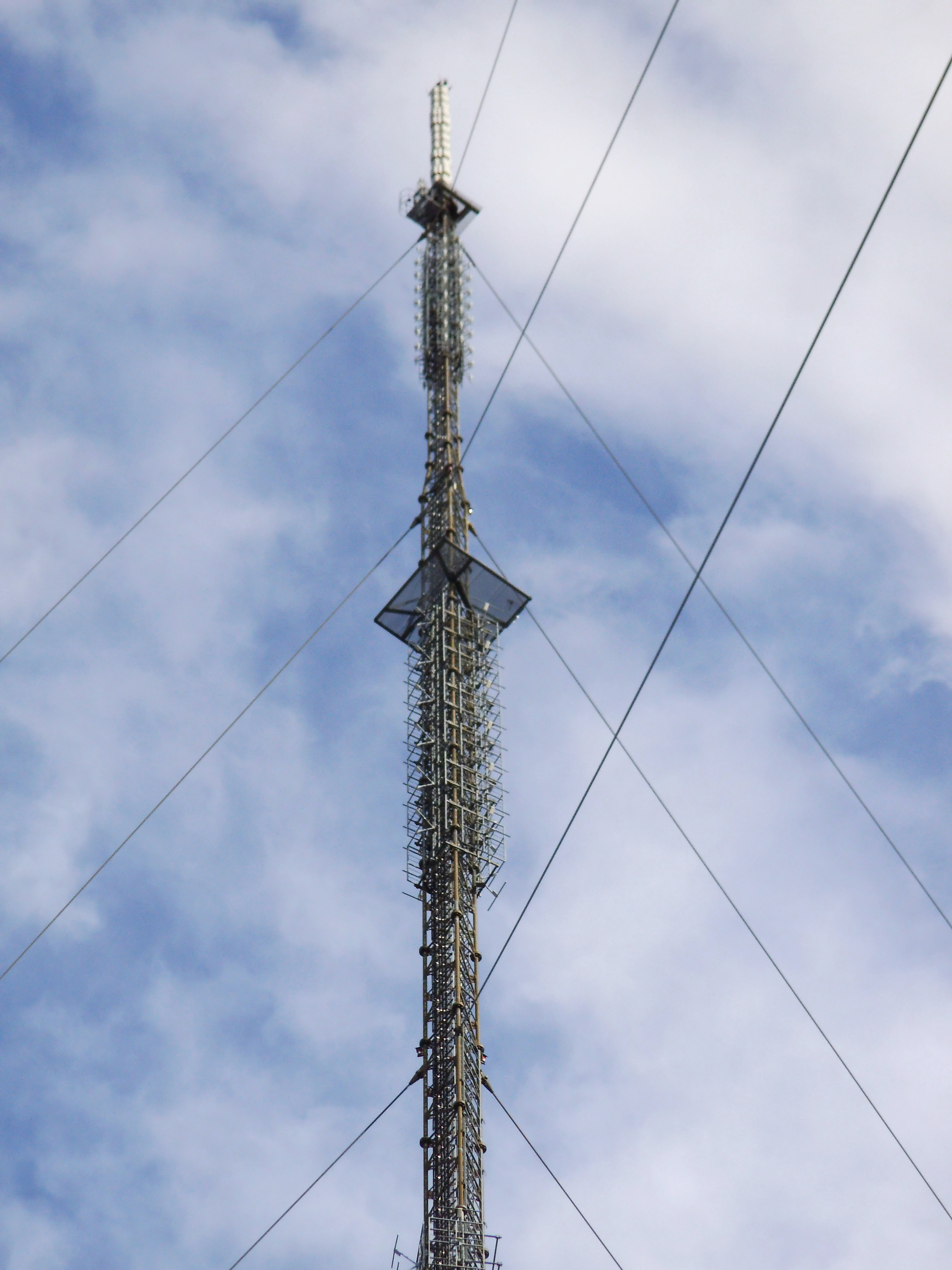 The TV-tower on Vassfjellet, a mountain located in Sør-Trøndelag, Norway. The long antenna were made for digital terrestrial television. It was raised in 2007 and put into use in 2009.